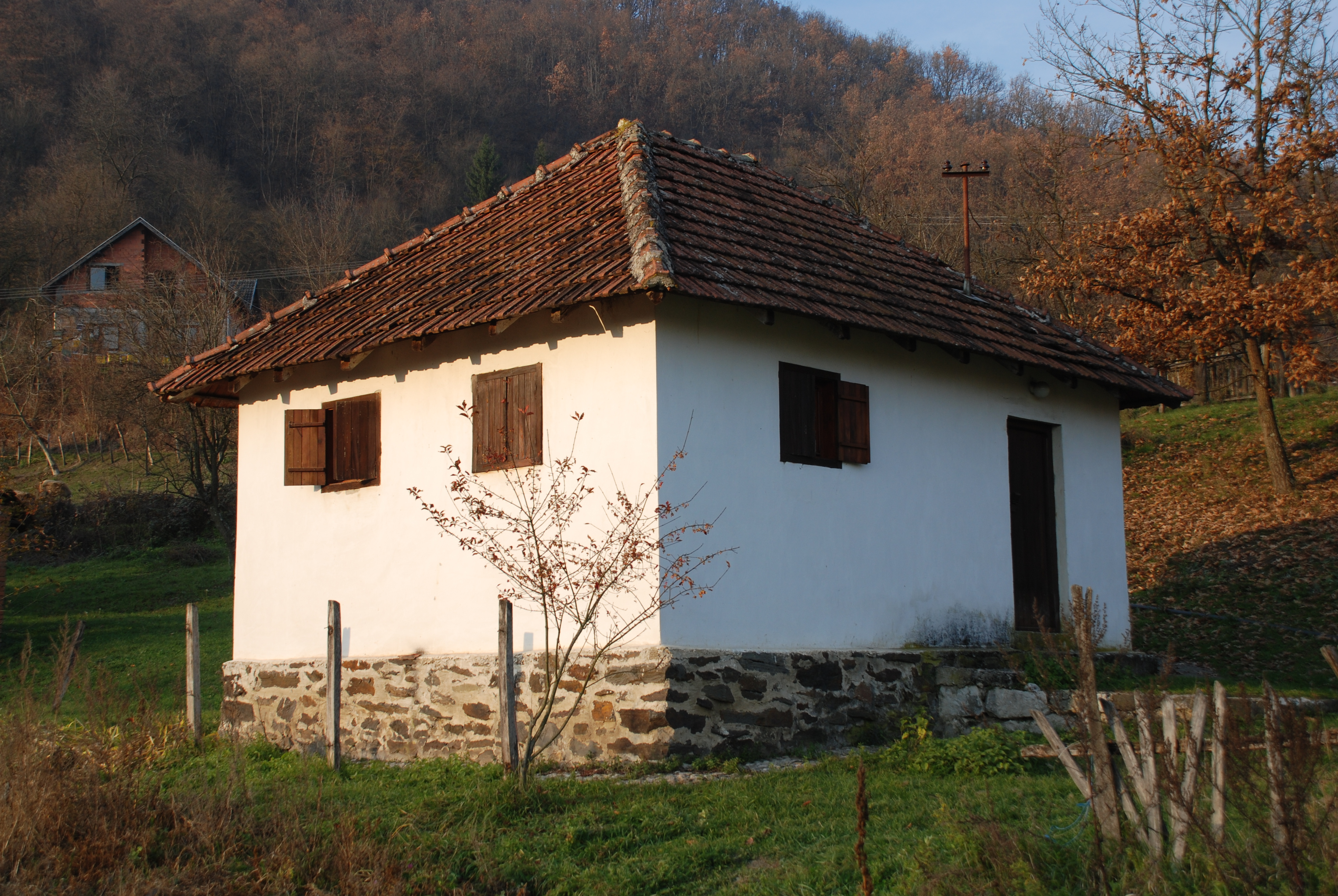 House of national hero Milorad Bondžulić in Otanj, Požega